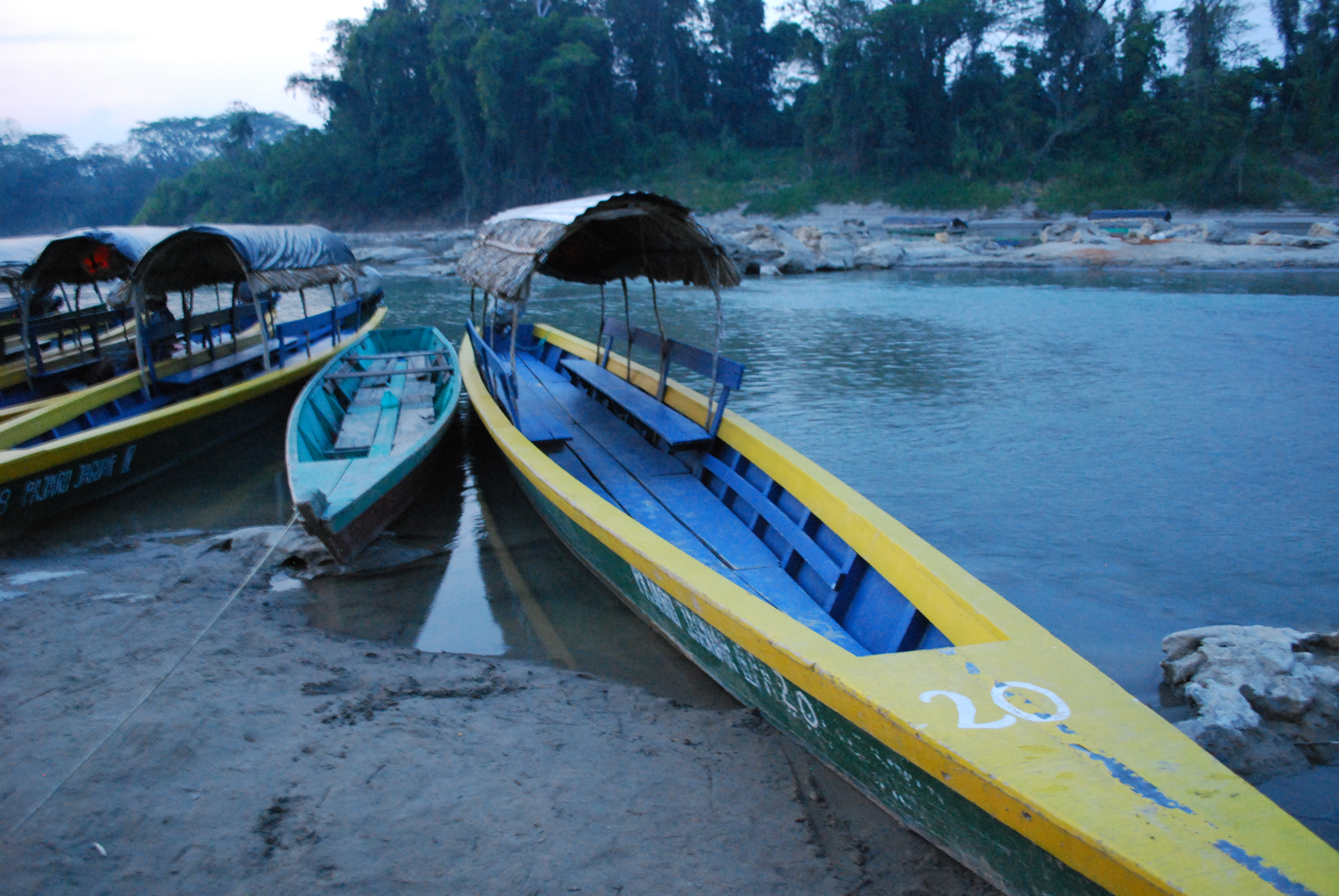 Lancha boat at the docks at dusk at Frontera Corozal, Chiapas, Mexico